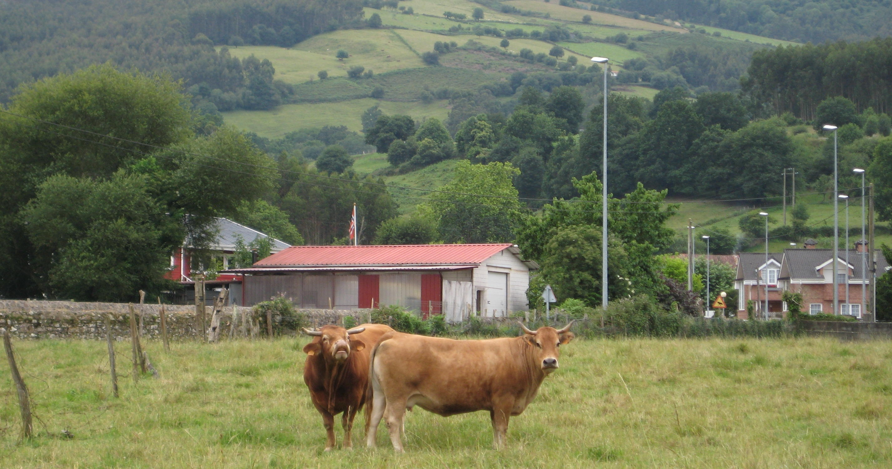 Bull and cow in Adino, Guriezo, Cantabria, Spain.